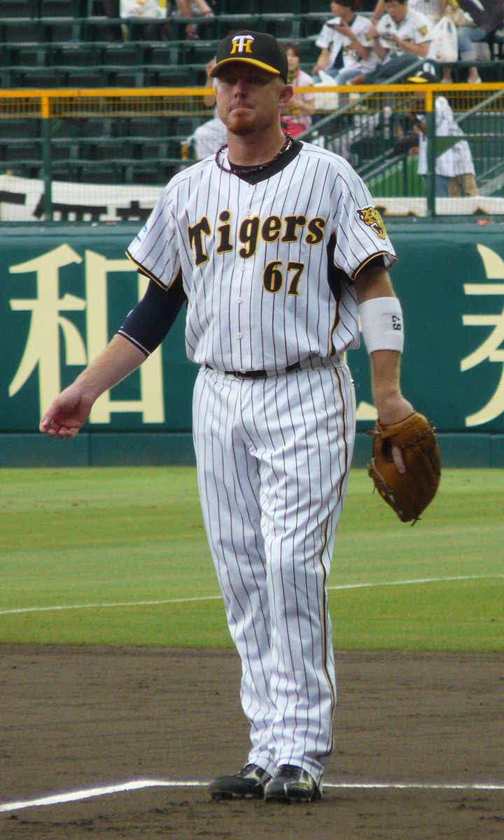 Craig Brazell, infielder of the Hanshin Tigers, at Hanshin Koshien Stadium.